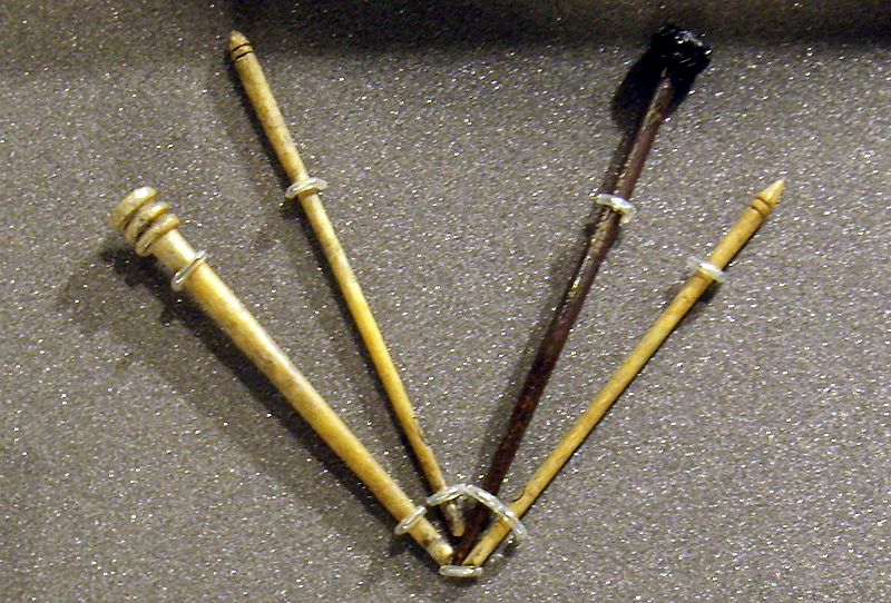 Roman hairpins, found at Chichester